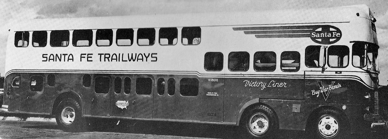 Postcard photo of a Santa Fe Trailways bus which was used to transport workers to defense plants in Santa Monica and Burbank, California. The railroad, along with the Burlington and Missouri-Pacific lines, was one of the founders of Trailways Transportation System.